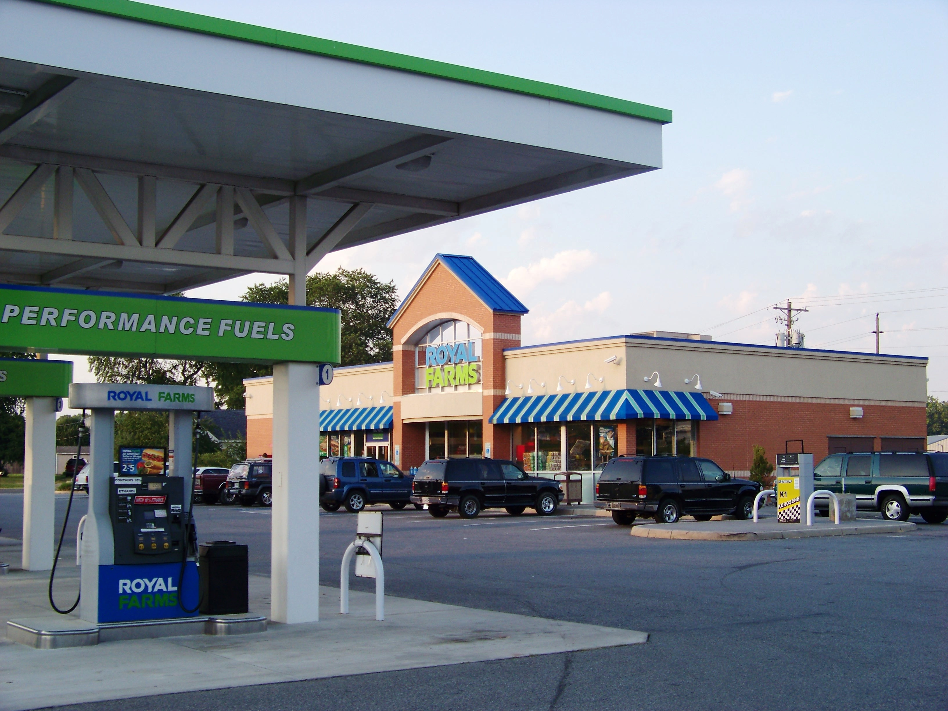 Royal Farms Food and Fuel